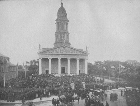 The exterior of St. Mel's Cathedral, Longford, Ireland, in an image dating from before 1900.